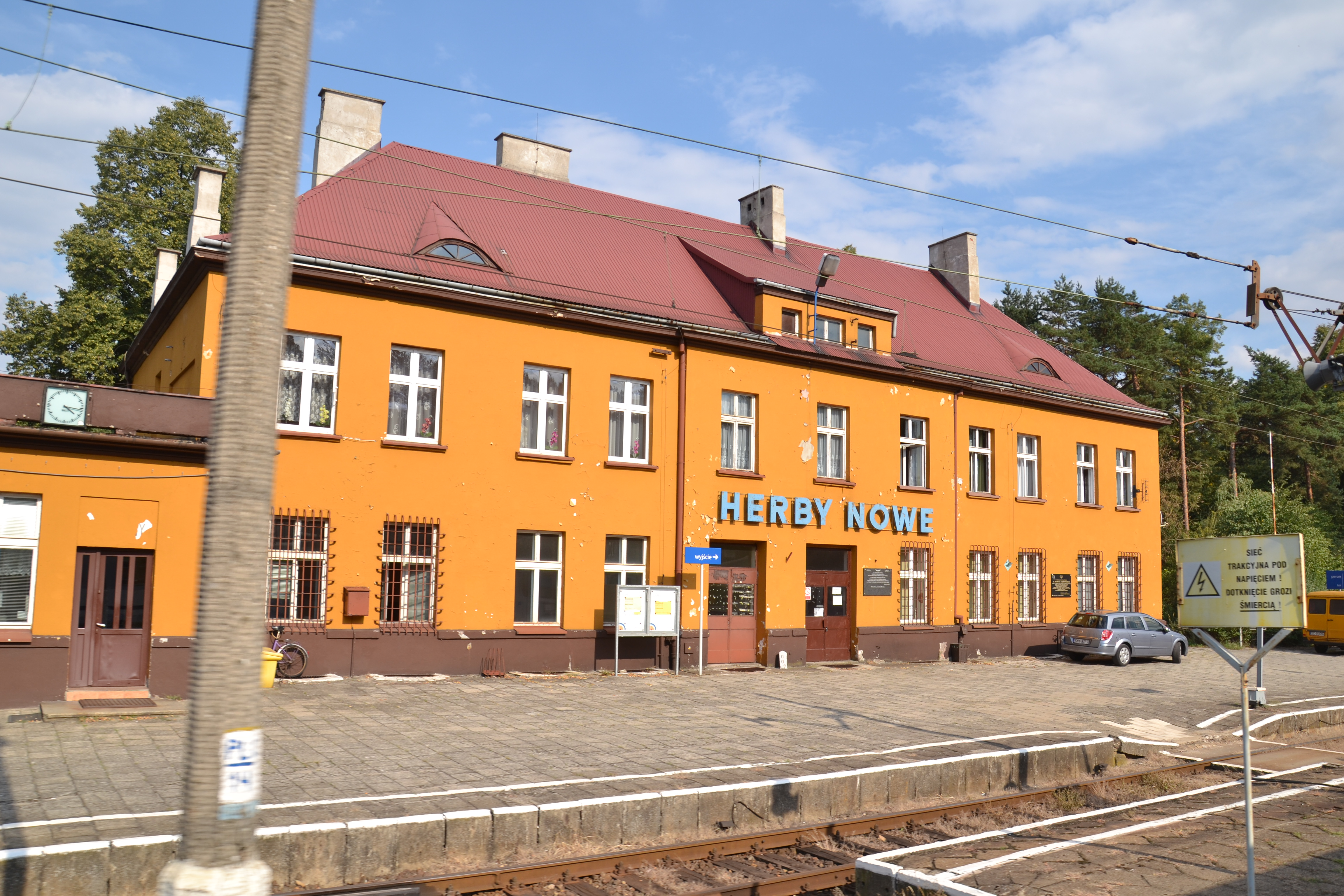 Stacja Herby Nowe This photo was taken during Railway Wikiexpedition 2015 set up by Wikimedia Polska Association in cooperation with Fundacja Grupy PKP. You can see all photographs in category Wikiekspedycja kolejowa 2015.